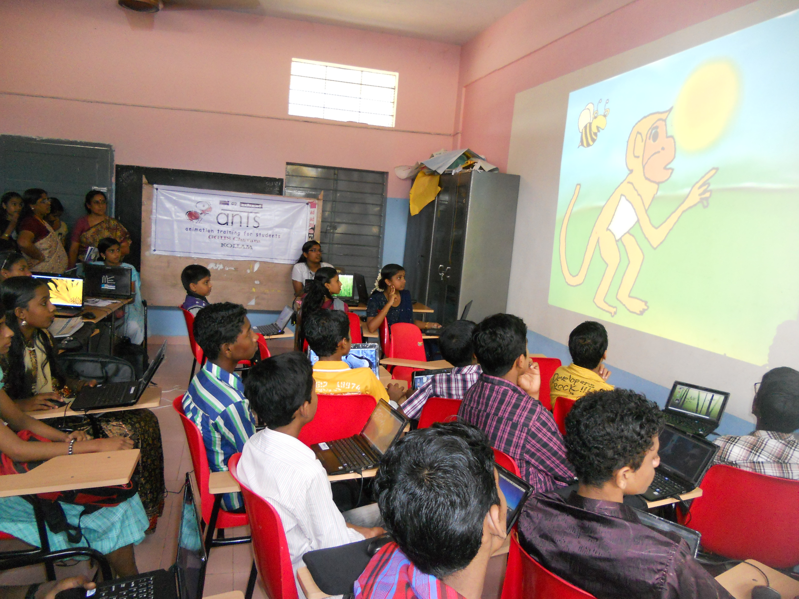 Animation training sessionof IT@school Project,Kerala, entirely based on Free and Open Source Software such as KToon,Gimp,OpenShot Video Editor and Audacity.[2]